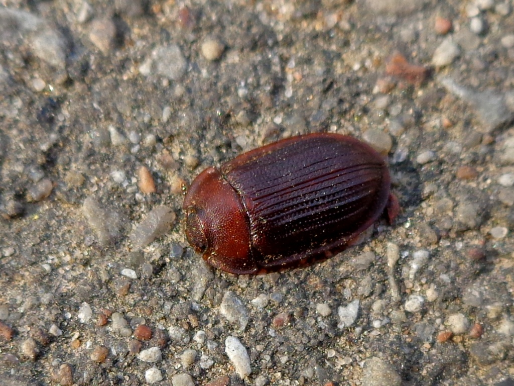 Ostoma ferruginea. Found in Riga town, Latvia